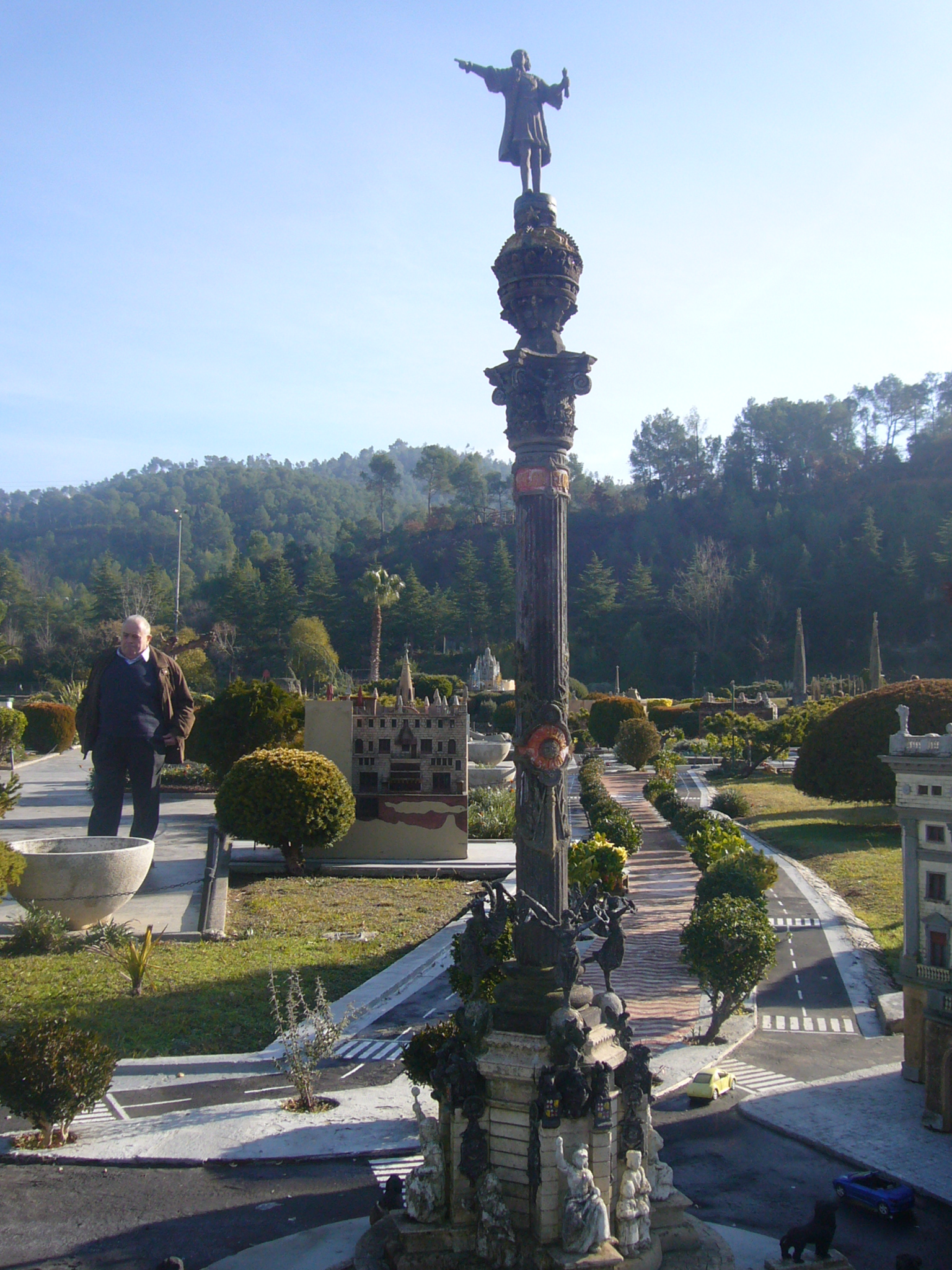 Scale model at the "Catalunya en Miniatura" miniature park : Monument a Colom (Barcelona)